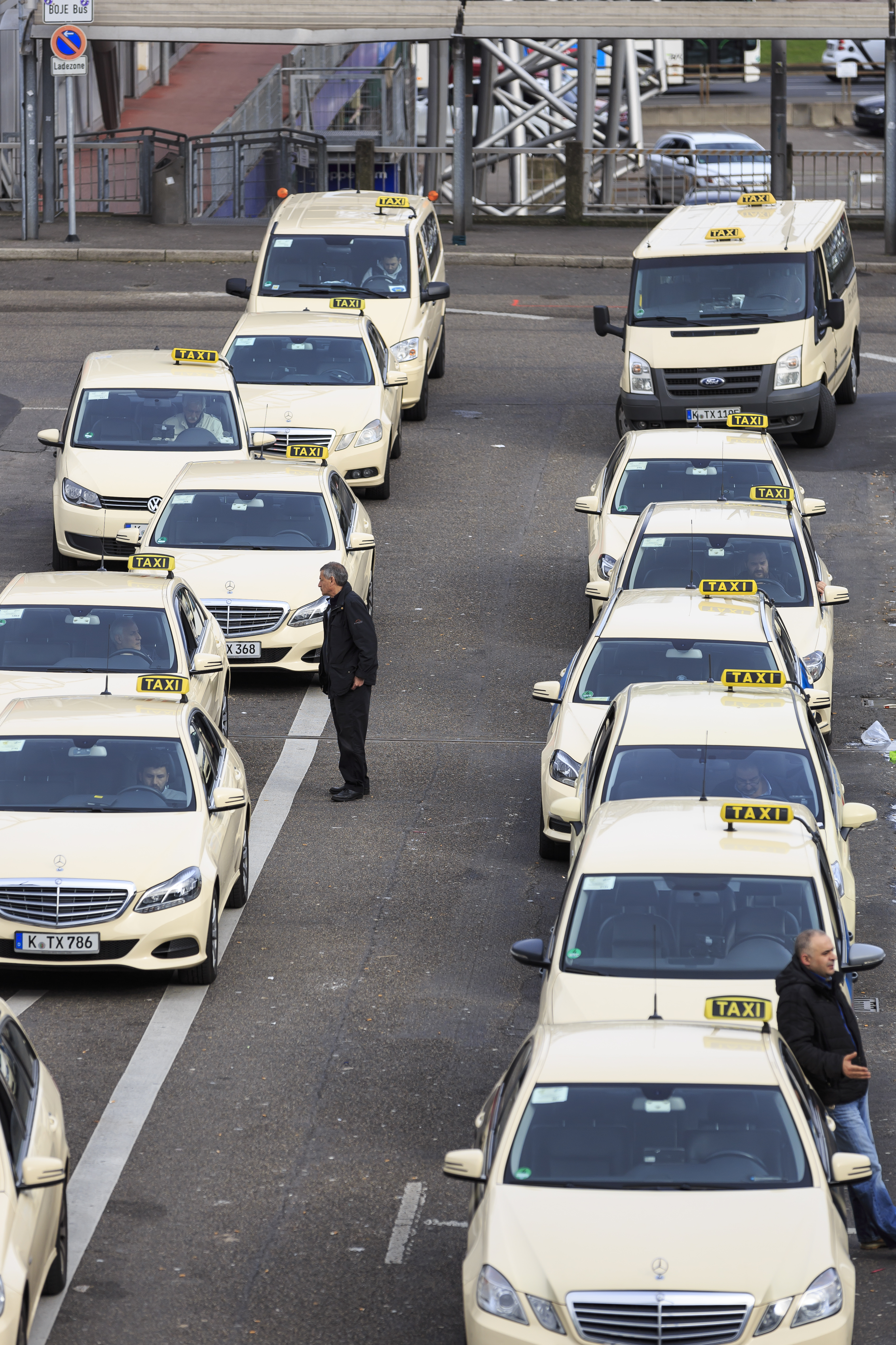 Cologne, Germany: Taxi drivers waiting in front of the central station for customers